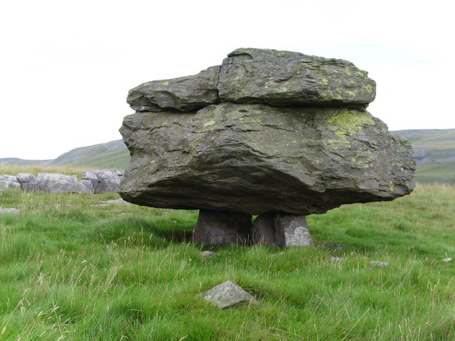 Glacial erratic, Norber One of several hundred erratics which are spread across a low ridge at Norber, having been dumped there by a glacier which transported them from nearby Crummack Dale. This one sits nicely on a limestone plinth, and there is a theory that the erratics have protected the limestone underneath them from erosion. However there is some debate as to the natural erosion rate of the limestone compared to that which is protected.